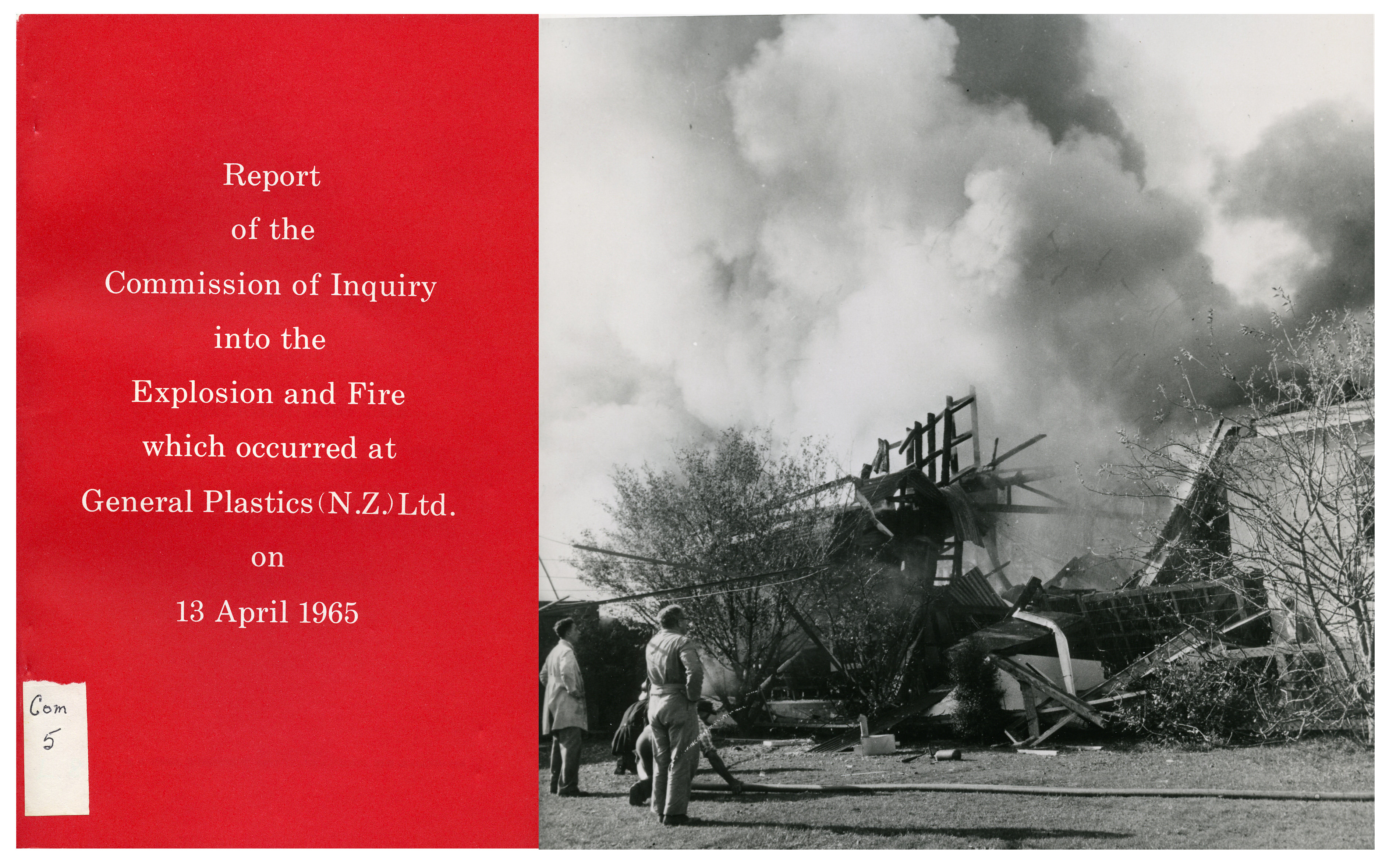 At seven minutes past 3 on April 13 1965, one of New Zealand’s worst factory disasters took place at the General Plastics (N.Z.) Ltd factory in Masterton, Wairarapa, New Zealand. An explosion had occurred in the ornamenting section of the factory followed by an intense fire. Of the 10 staff in the area at the time, 4 were killed instantly and others received burns and injuries. The four staff killed were: Mrs Lesatai Himona; Mrs Maisie Cavanagh; Mrs Olive Parker; & Mr Kenneth Bull. The subsequent fire eventually destroyed the factory. A Commission of Enquiry was launched to investigate the causes of the disaster. Archives New Zealand holds the records of the enquiry, including submissions, evidence and the final report. The cover of the report and one of the images from the day of the explosion are presented here. The Commission summarised the cause of the explosion as being “It is our opinion that very finely divided plastic dust accumulated under the floor of the ornamenting room, that this dust was simultaneously dispersed and ignited by an explosive electrical fault, and that the resulting dust explosion lifted the floor over a wide area and thereby injected relatively large amounts of dust and flame into the ornamenting room and ladies locker room above, thus causing a further dust explosion there. In the ornamenting room, combustible plastic dust and shavings lying in the rubbish bins were dispersed by the explosion, added to its severity, and served as a means of immediate ignition of the whole interior.” Reference: ADQU 19489 W703 COM5 1/1 (R16446240) For more information For updates on our On This Day series and news from Archives New Zealand, follow us on Twitter Material supplied by Archives New Zealand